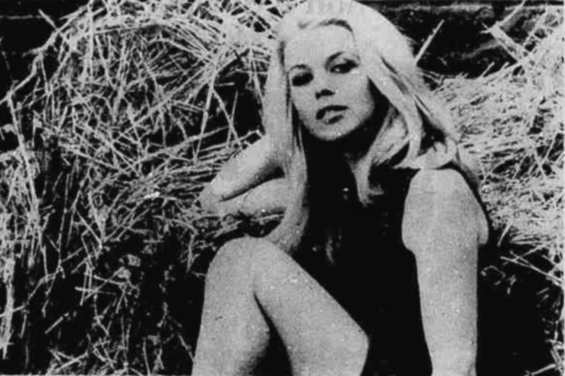 Yugoslav actress Beba Lončar. The photograph was taken in Italy and originally published on 19 April 1971 on Italian newspaper La Stampa